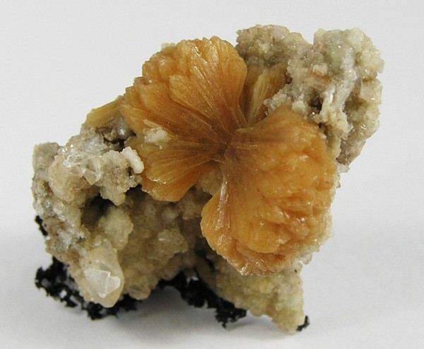 Stilbite-Ca Locality: McDowell's Quarry, (Osborne and Marsellis Quarry), Upper Montclair, Essex County, New Jersey, USA (Locality at ) Size: 3.9 x 2.4 x 1.3 cm. A perfect bowtie of orange-caramel colored stilbite from New Jersey - rare on the market now and a very pretty example of this in a small miniature size. Ex. Jaime Bird Collection.